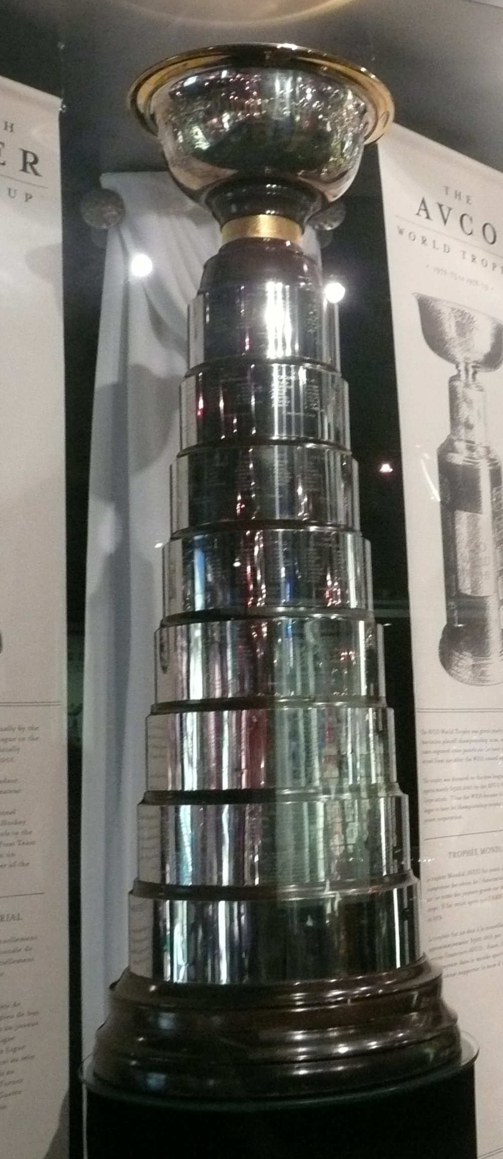 The Turner Cup on display at the Hockey Hall of Fame